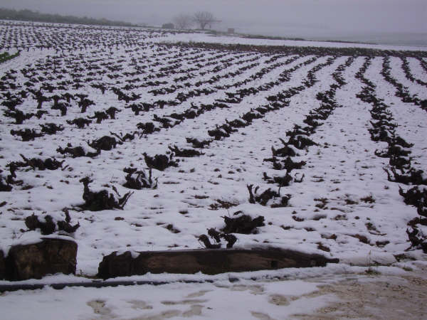 Snow in La Rambla, province of Córdoba (Spain).